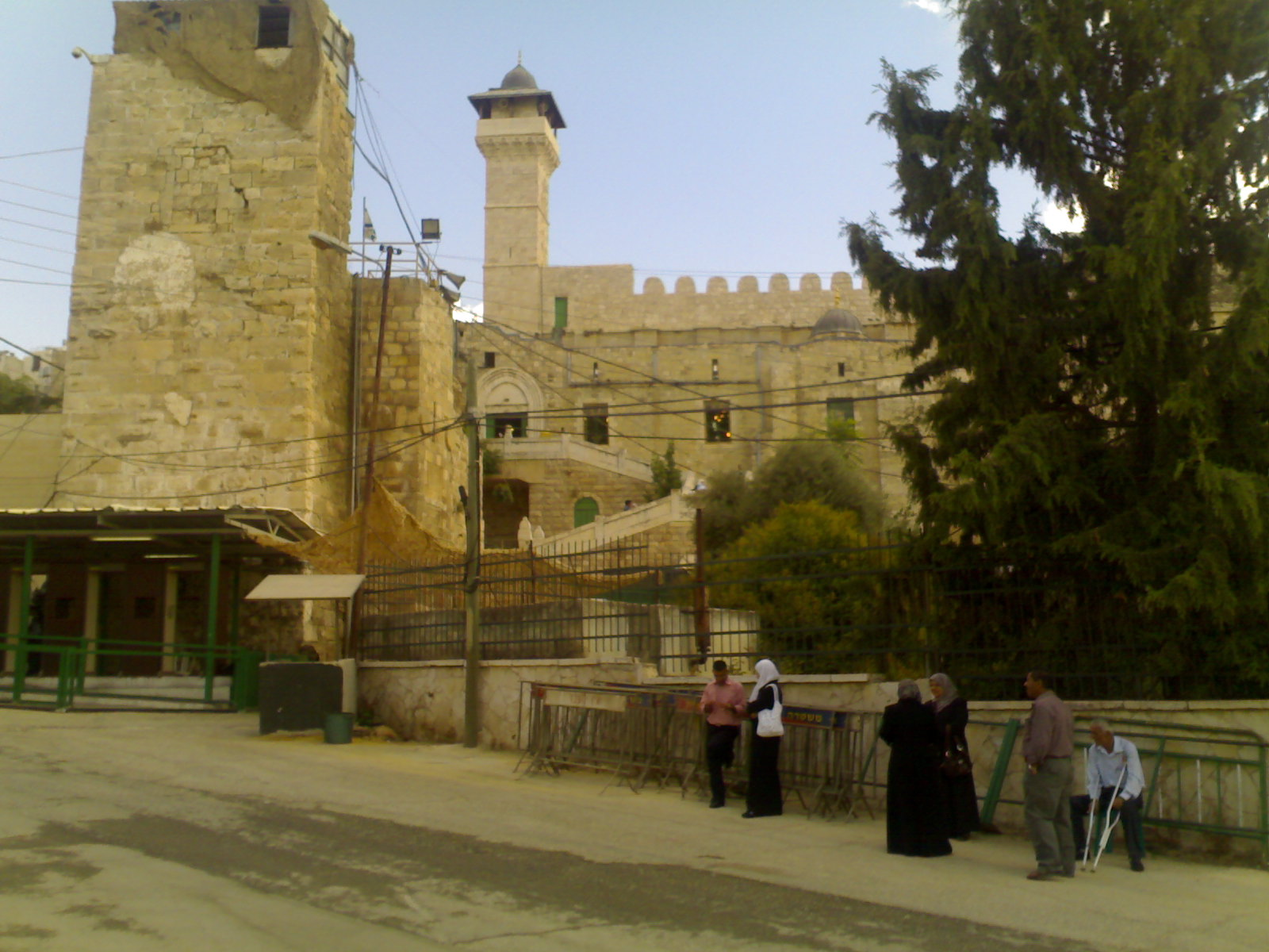 Ibrahimi Mosque